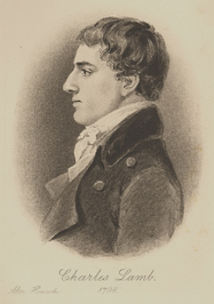 Charles Lamb (1775-1834), an English essayist and poet.